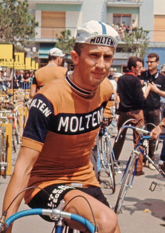 The Italian cyclist Gianni Motta sitting on the crossbar of his bicycle at the start of a stage of the Giro d'Italia. Italy, May 1966